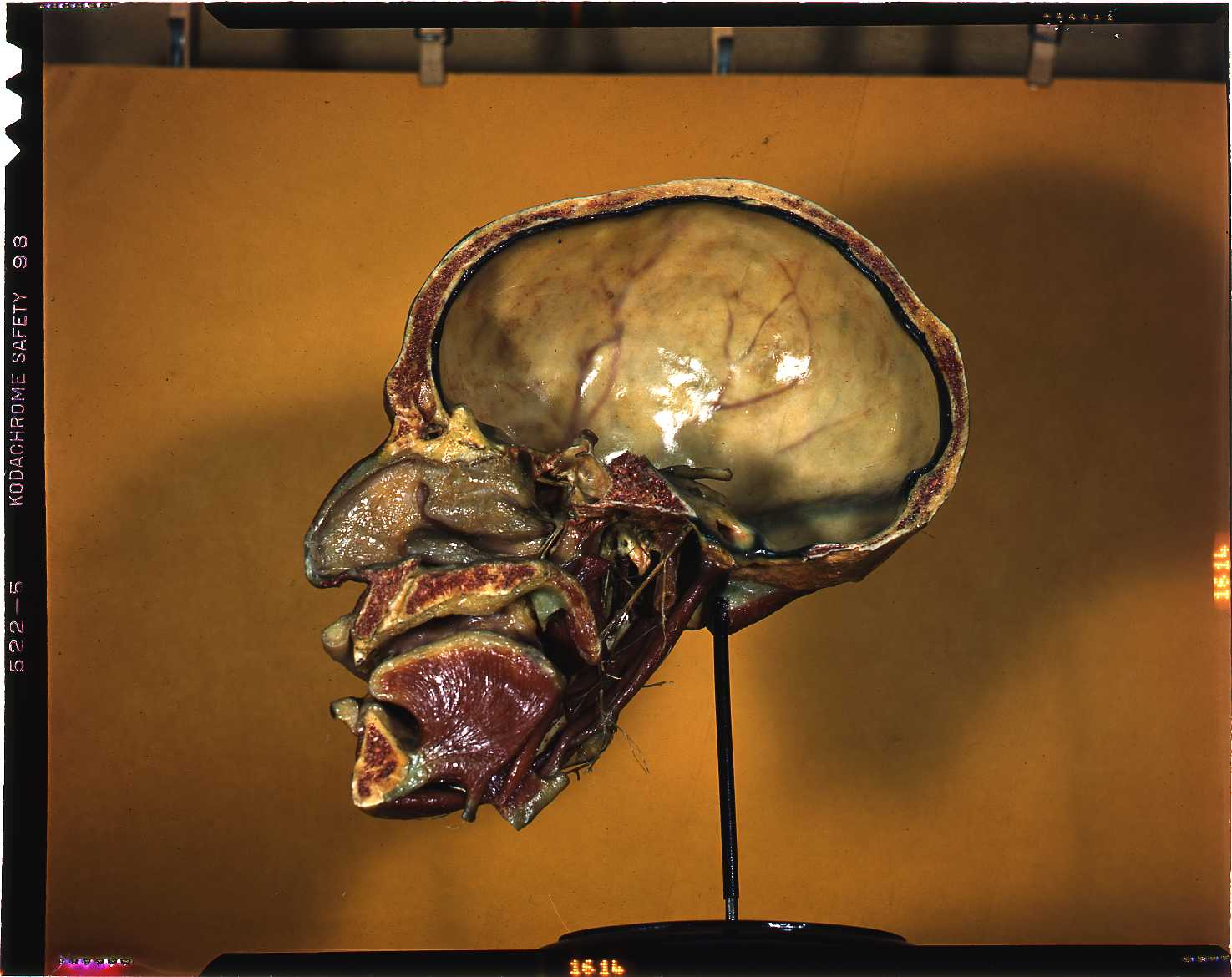 Wax model of head. Medical illustration. (MIS 218756-2 )